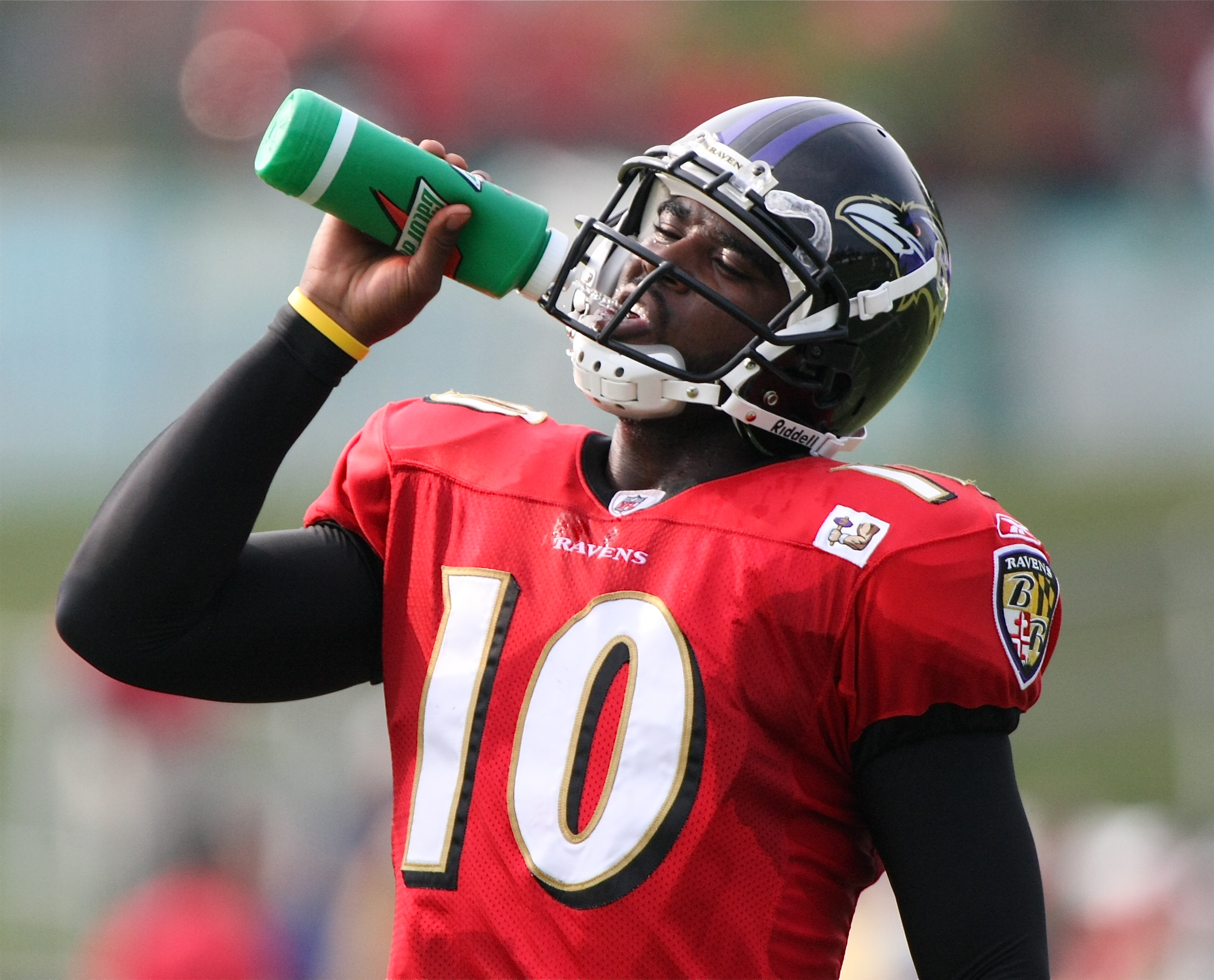 NFL Football player Troy Smith drinking Gatorade during a break in-between plays.